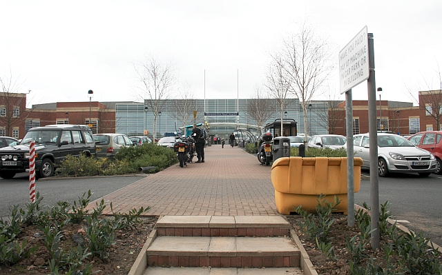 Worcestershire Royal Hospital A PFI project replacing the Worcester Royal and Ronkswood hospitals.